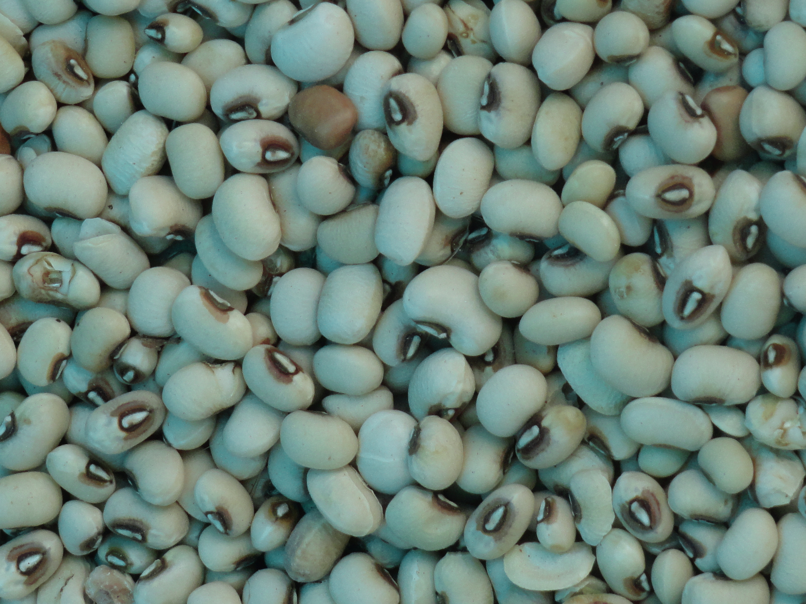 అలసందలు.